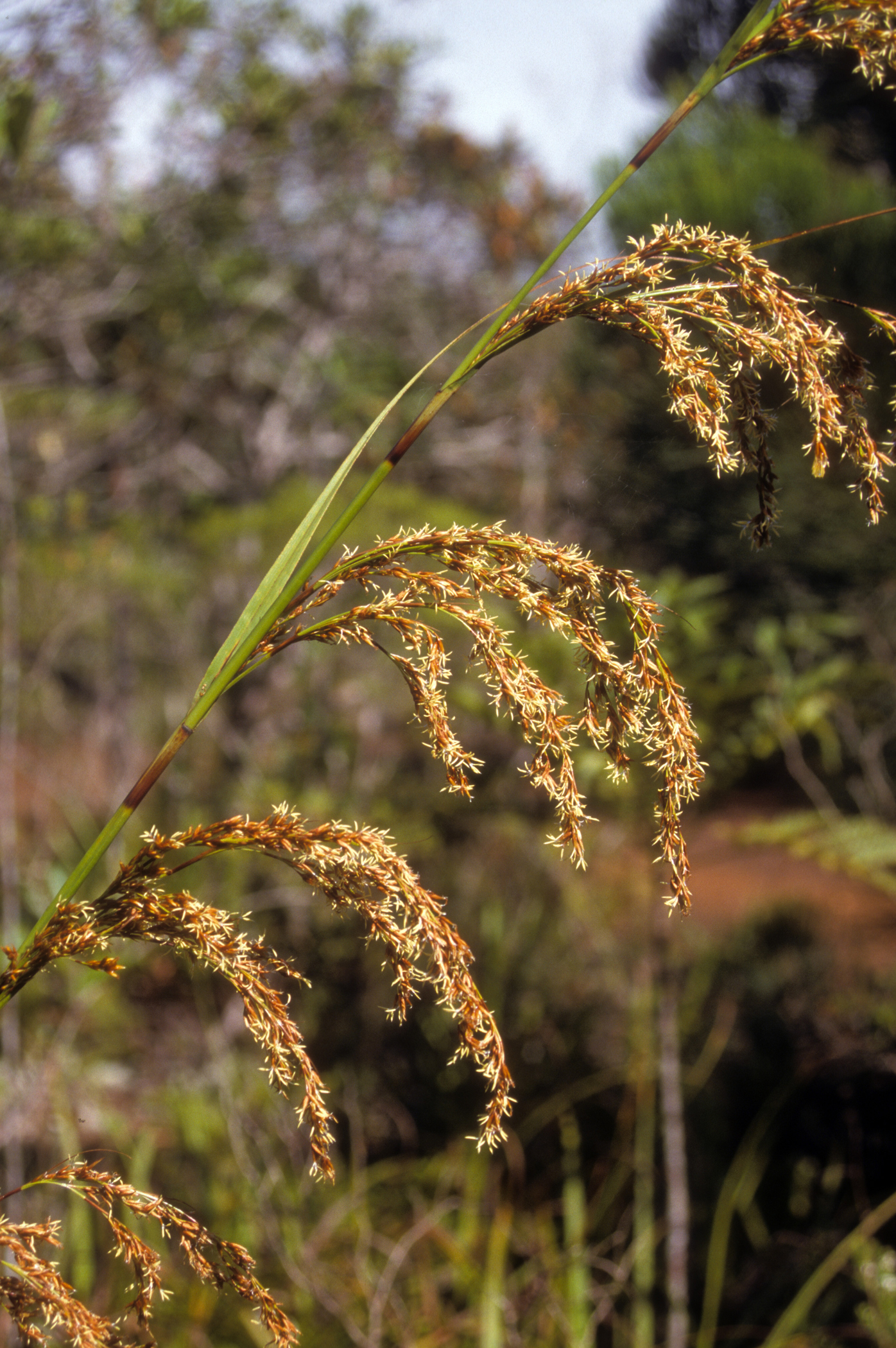 Riviere Bleue, New Caledonia. 30 Sep 2000. If anyone recognizes the species, please comment.